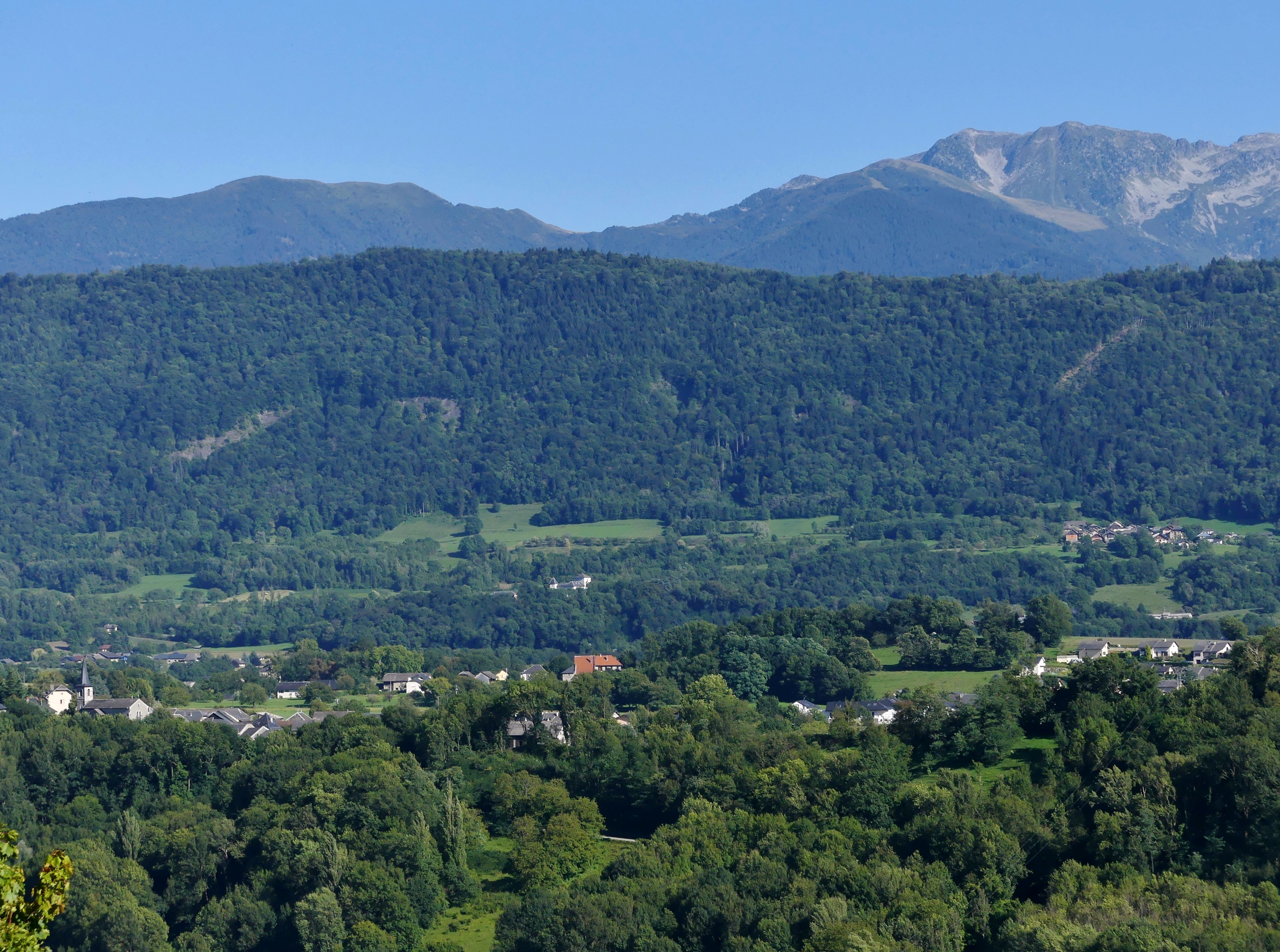 Sight, from Le Rocher hill in Montmélian, of La Chavanne village, at the foot of the Belledonnes mountain range at the background, in Savoie, France.